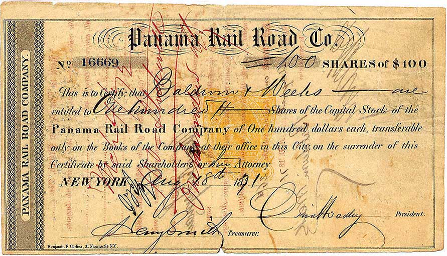 Certificate for 100 Shares of stock in the Panama Rail Road Co (Cert #16669) dated at New York, August 18, 1871. The Company was incorporated in New York on April 7, 1849. Source: The Cooper Collection of Railroadiana